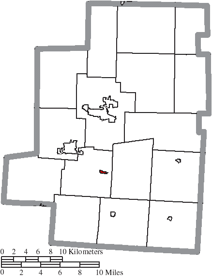 Map of the municipal and township boundaries of Morrow County, Ohio, United States, as of the 2000 census, with the location of the village of Fulton highlighted. Township borders are shown only in unincorporated areas in order to differentiate incorporated and unincorporated areas more clearly.